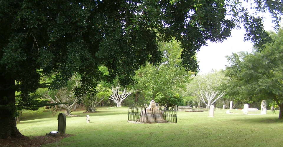 Port Macquarie Second Burying Ground, 2010, showing surviving headstones in a park setting